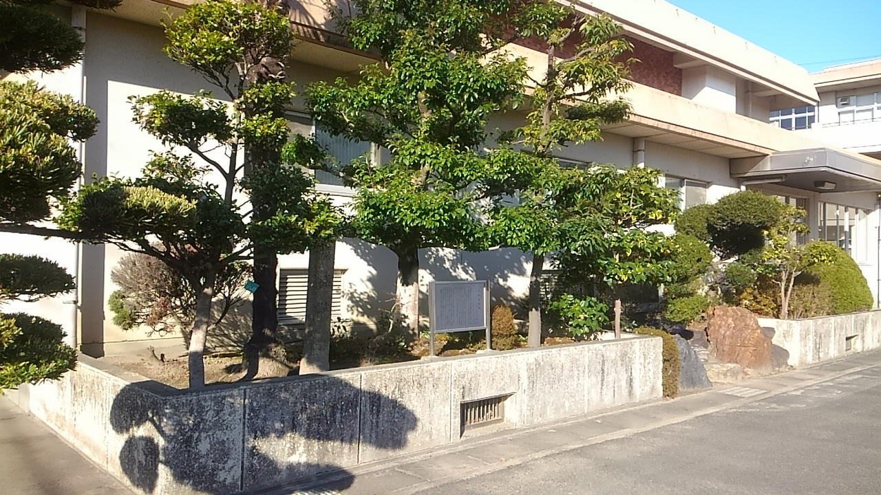 View of the monument at the Kaimei elementary school. The place is a site of the Nobu Castle.